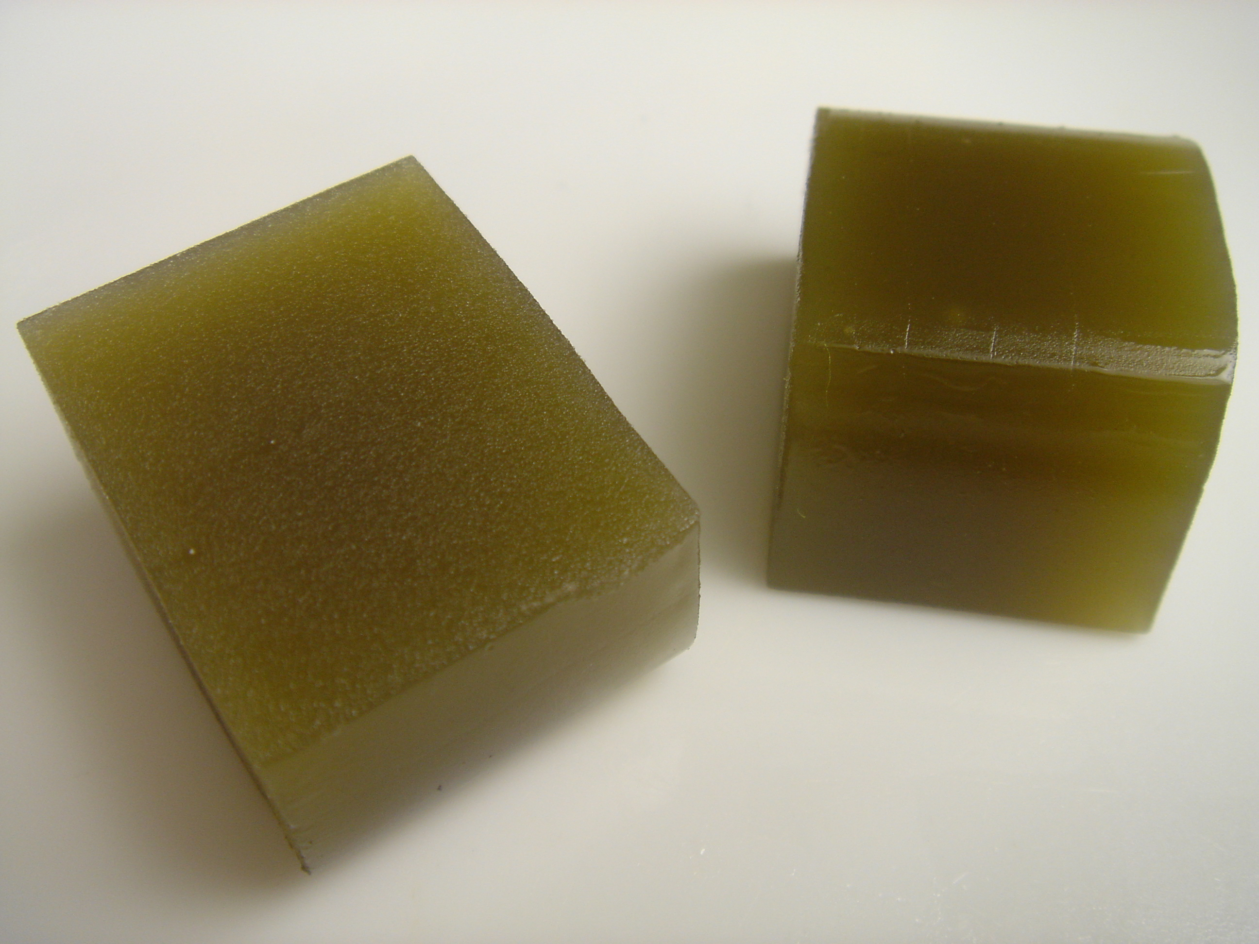 2 cubes of green tea yokan